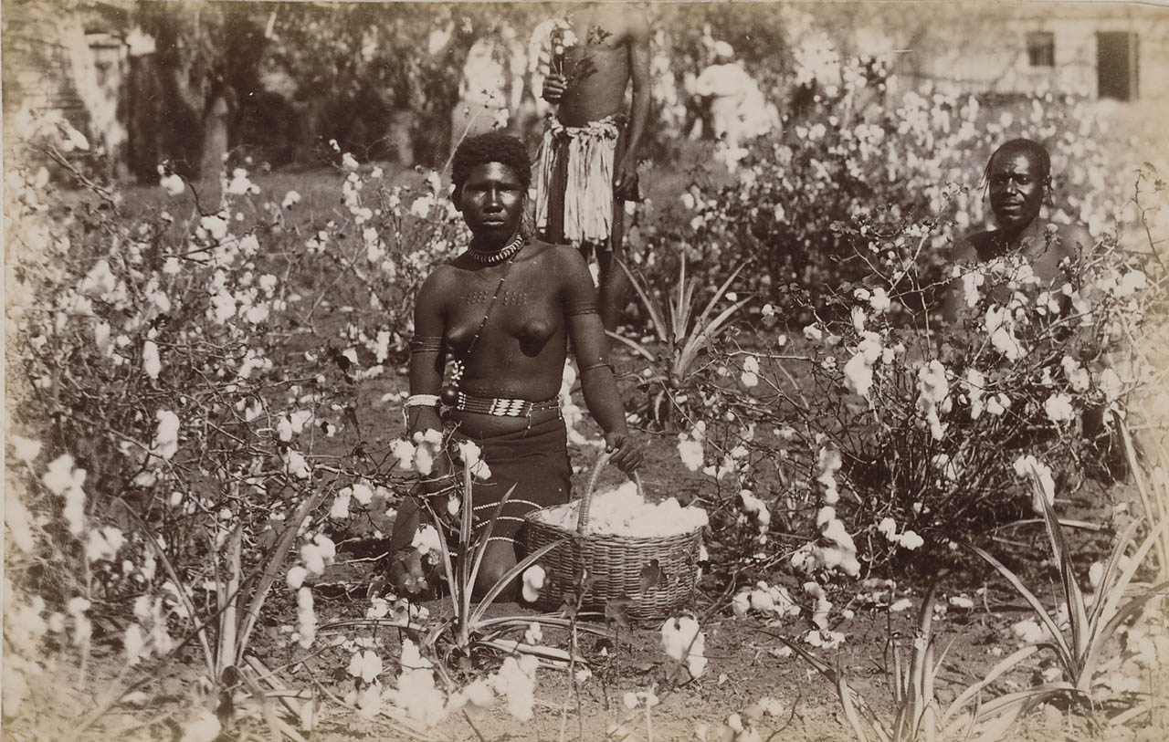 Albumen print showing three workers picking cotton in South Africa. As on sugar plantations, day-to-day conditions for cotton pickers changed little after emancipation.